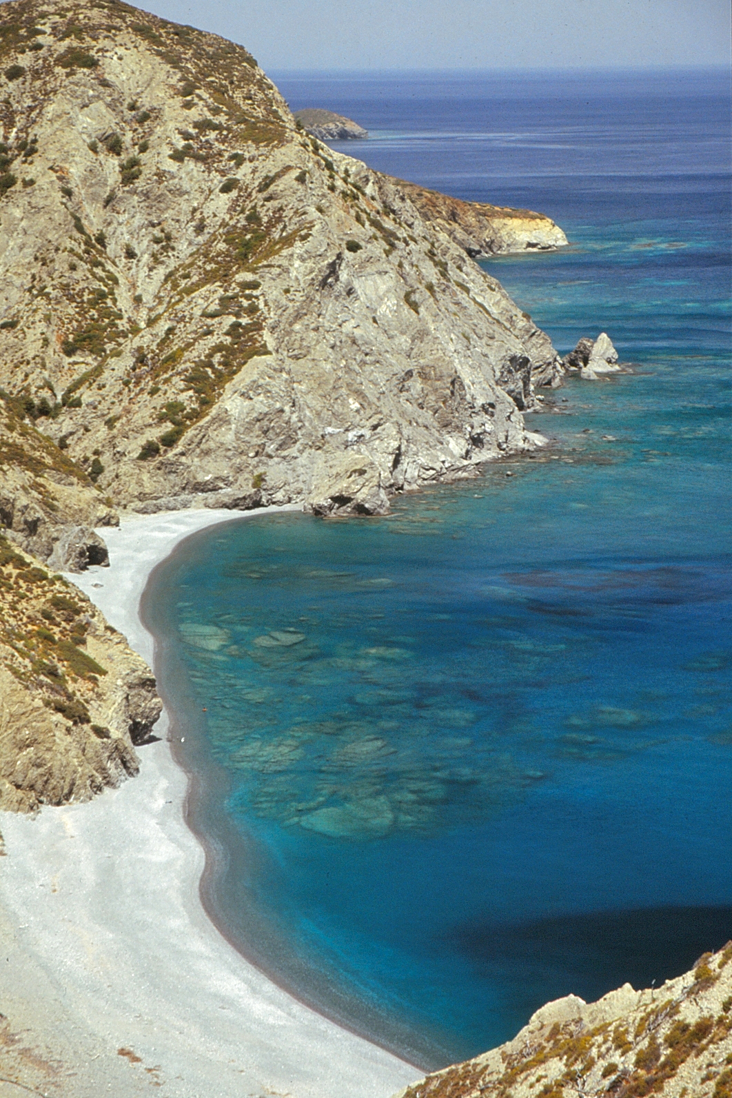 This is a photography of Natura 2000 protected area with ID GR4210003